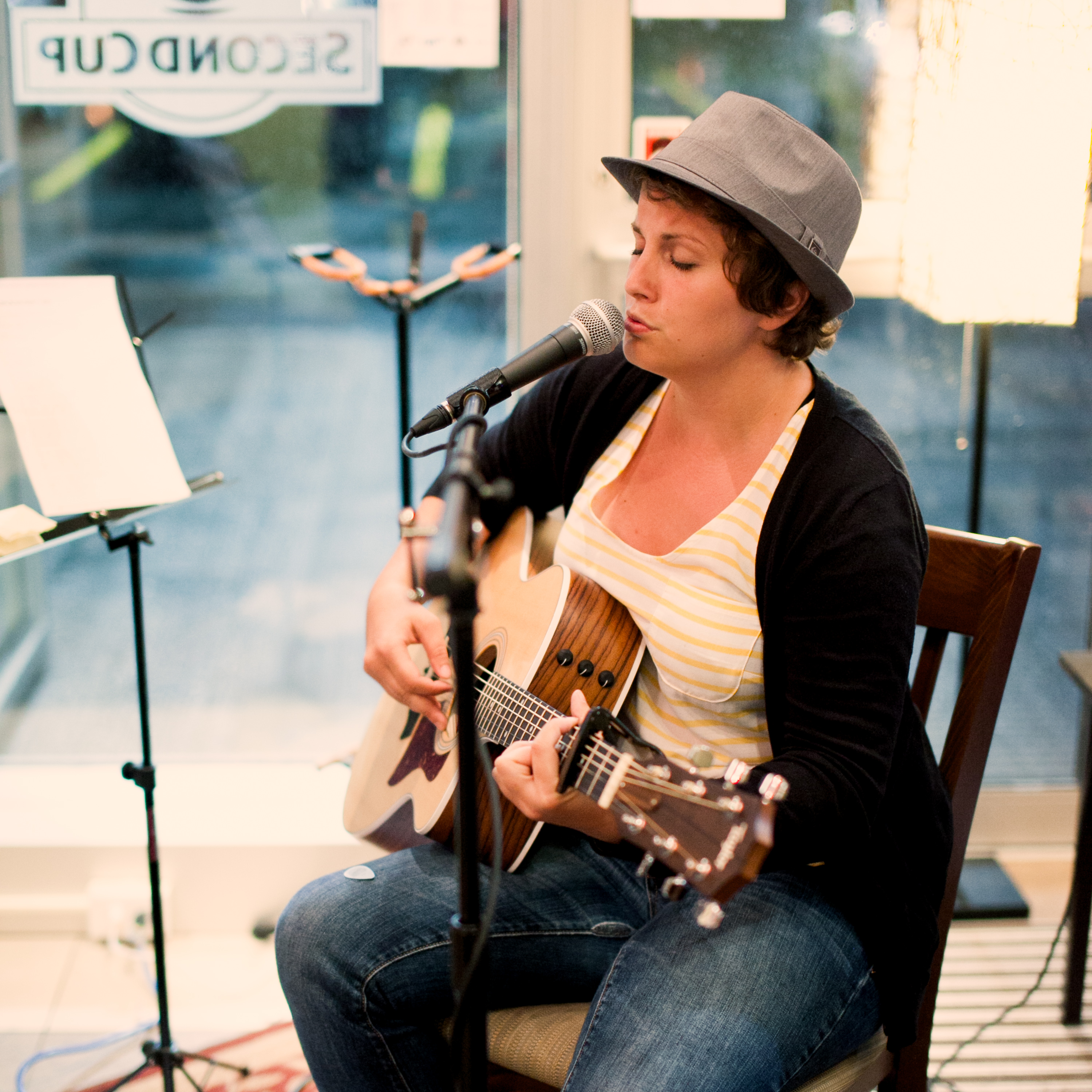 Kellie Loder performing a solo set at Second Cup on Stavanger Drive, St. John's, Newfoundland